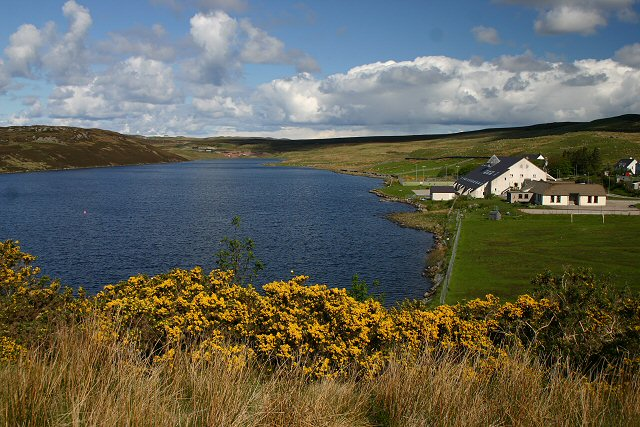 Loch Innis and Kinlochbervie school The southern end of Loch Innis. The modern school buildings are situated on the lochside.